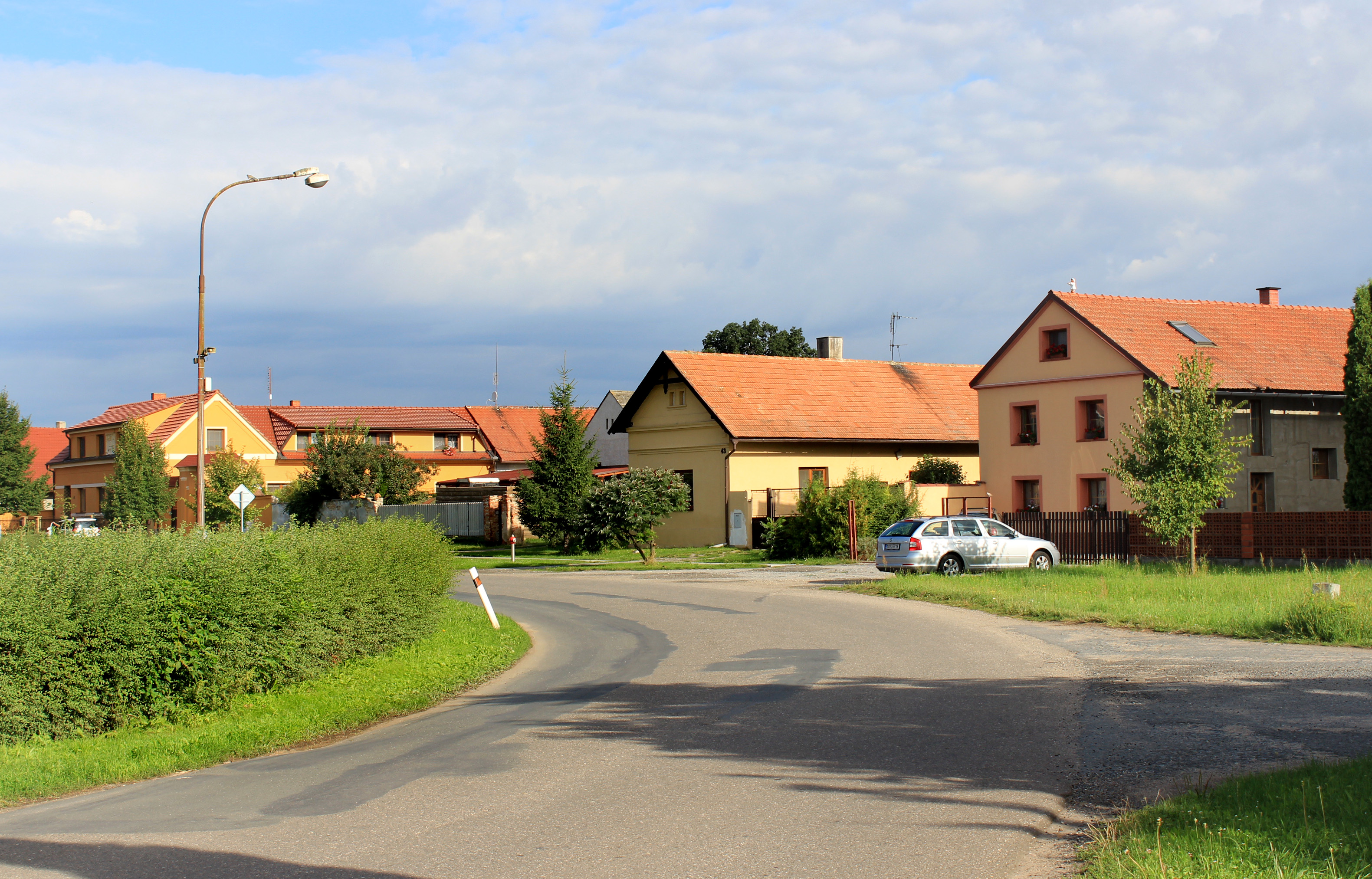 East part of Hořátev village, Czech Republic.